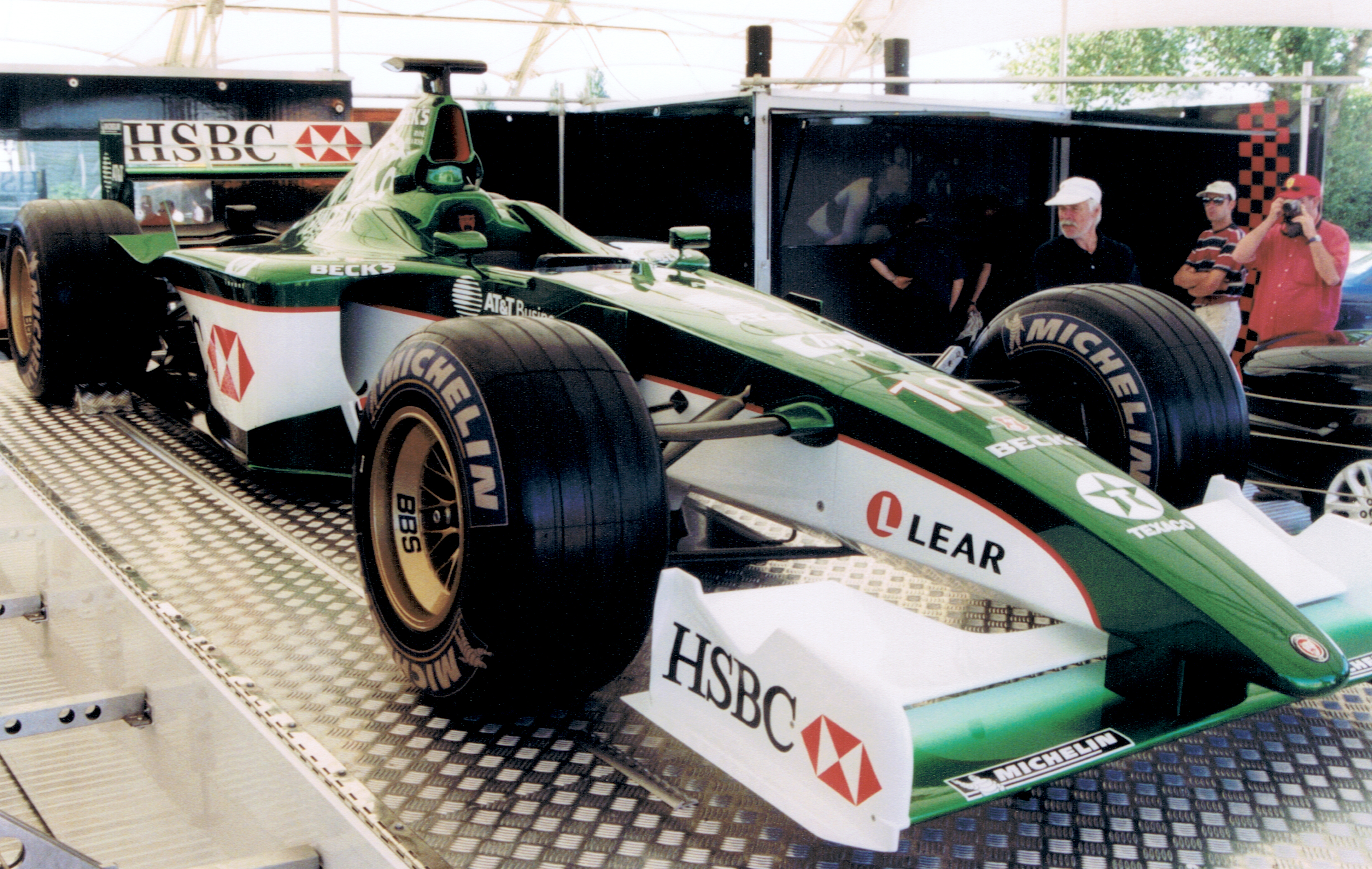 Eddie Irvine's Jaguar R2 exposed at the 2001 French Grand Prix